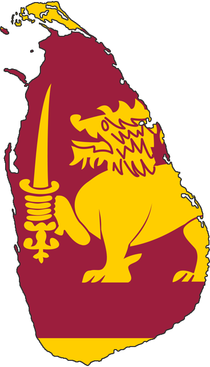 Flag map of Sri Lanka